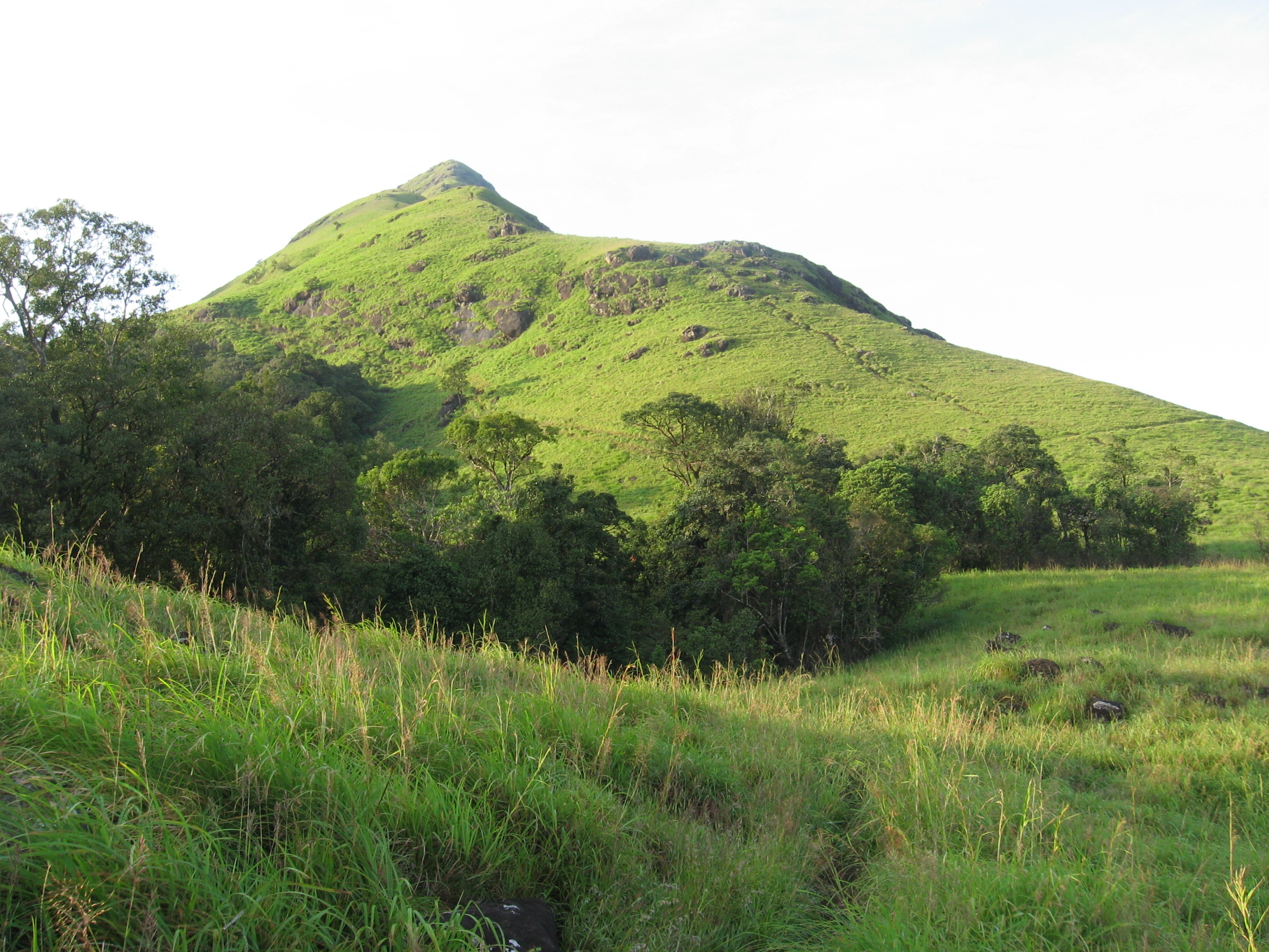 Chembra Peak, at 2100m (6980 ft) above sea level is the highest peak in Wayanad (northern) district of Kerala in India. It is part of the Wayanad hill ranges in Western Ghats, adjoining the Nilgiri Hills in Tamilnadu and Vellarimala in Kozhikode district in Kerala